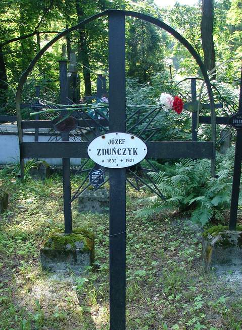 Joseph Paulin Zdunczyk's grave at Lyczakow Cemetery in Lwow